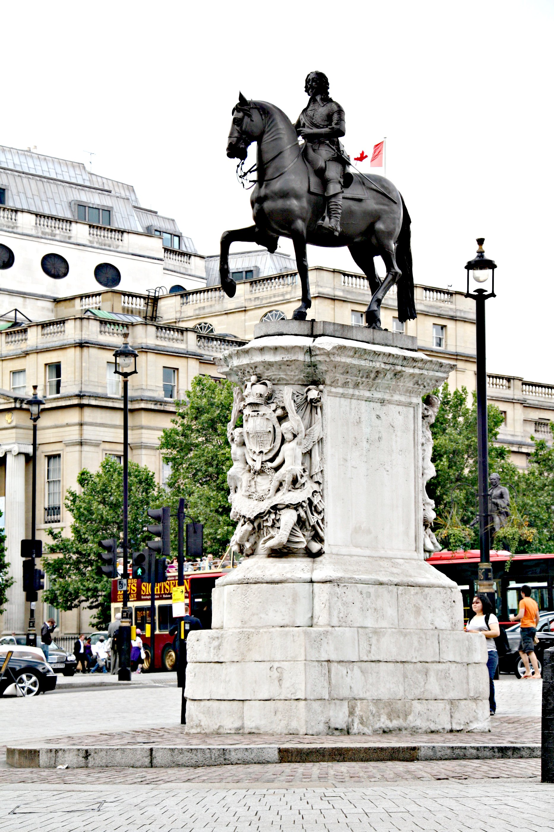 Charles I, Trafalgar Square. Statue of Charles I G.V. I Equestrian statue. Cast 1633, by Hubert Le Sueur, the carved pedestal by Joshua Marshall provided when the statue was erected here (on the site of Eleanor Cross) in 1674-75. Bronze statue and carved Portland stone pedestal. The King is shown in half-armour. This highly influential equestrian statue, the first of its kind in England, was originally commissioned in 1630 by Charles I's Lord Treasurer Sir Richard Weston for his house Mortlake Park, Roehampton. Survey of London; Vols. XVI and XXXVI.